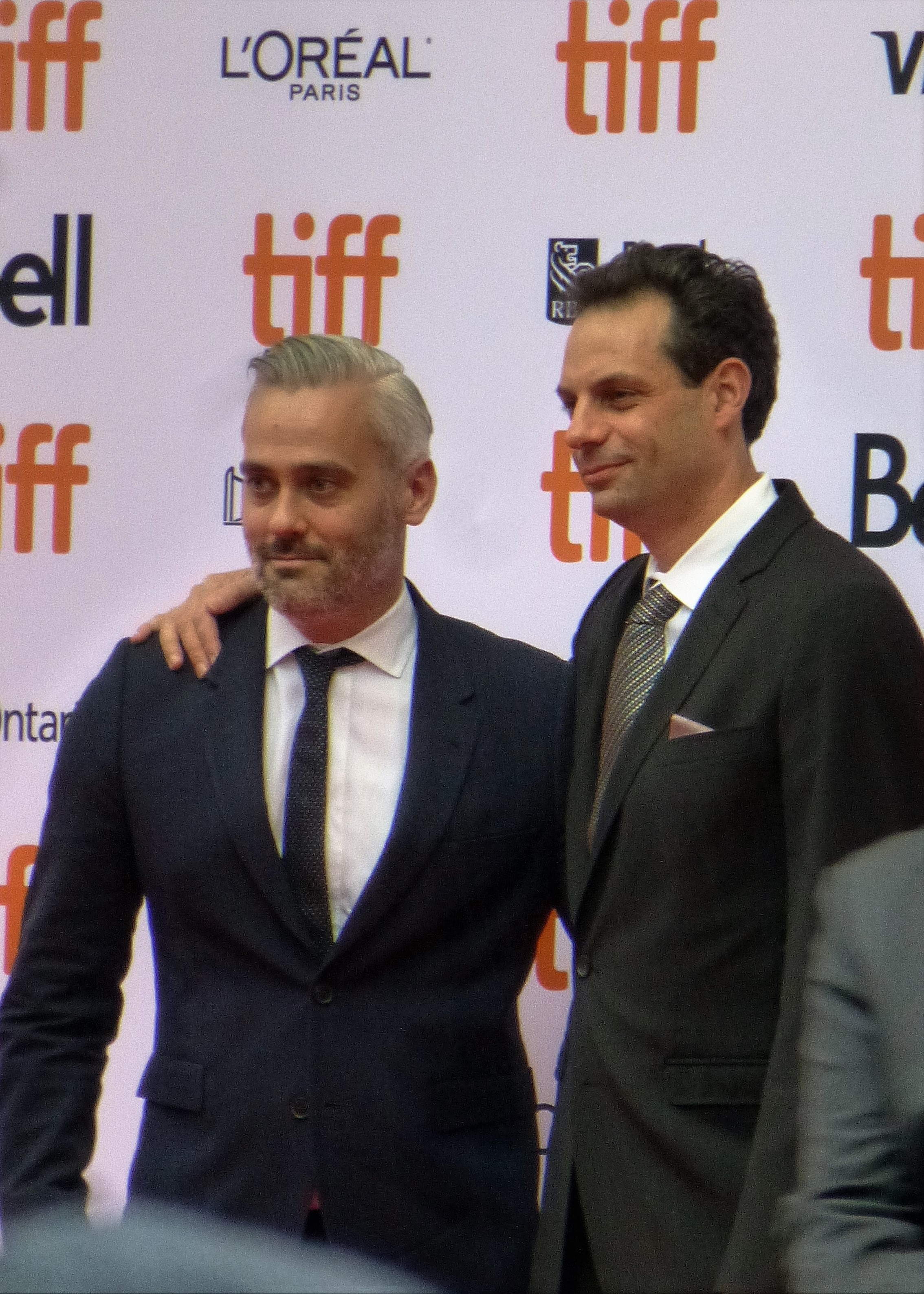 Iain Canning and Emile Sherman at the premiere of Lion, 2016 Toronto Film Festival